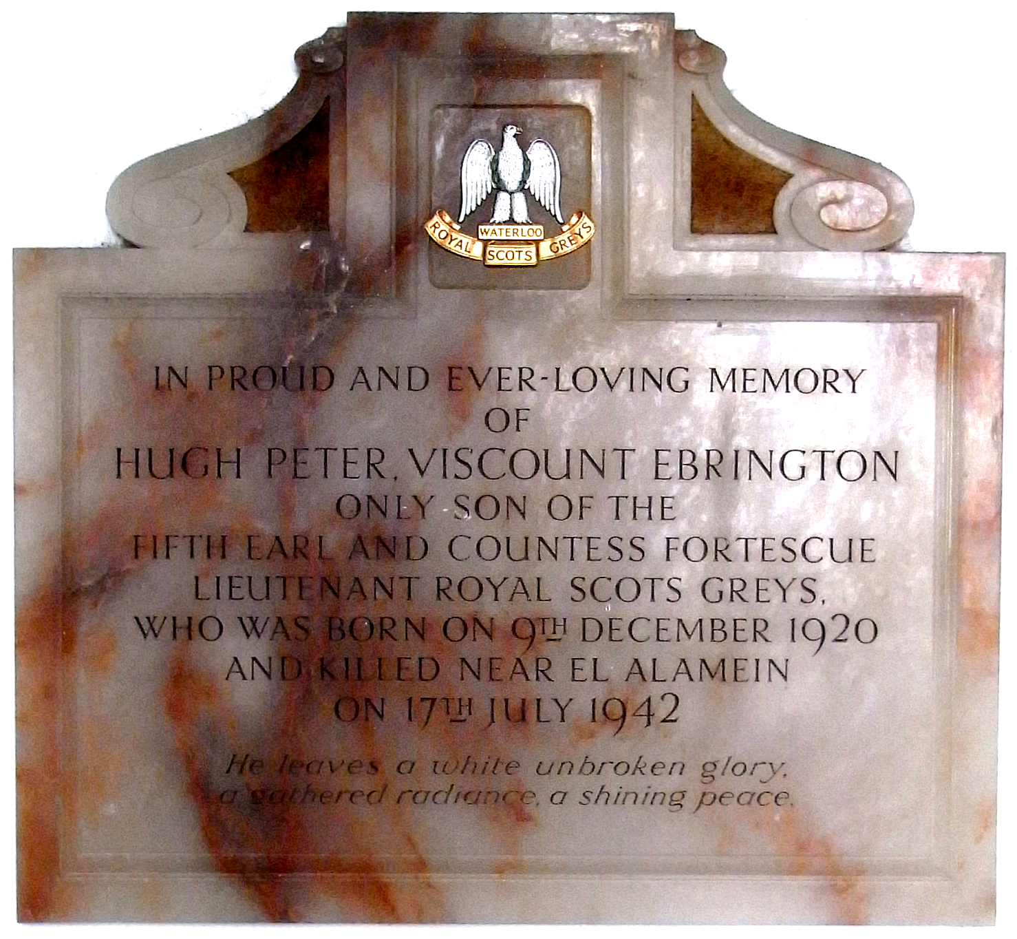 Mural monument in the Fortescue Chapel of St Paul's Church, Filleigh, Devon, to Hugh Peter Fortescue, Viscount Ebrington (1920-1942), only son and heir apparent of Hugh Fortescue, 5th Earl Fortescue (1888-1958), of Castle Hill, Filleigh. Inscription: "In proud and ever-loving memory of Hugh Peter, Viscount Ebrington, only son of the Fifth Earl and Countess Fortescue, Lieutenant Royal Scots Greys, who was born on 9th December 1920 and killed near El Alamein on 17th July 1942. He leaves a white unbroken glory, a gathered radiance, a shining peace"